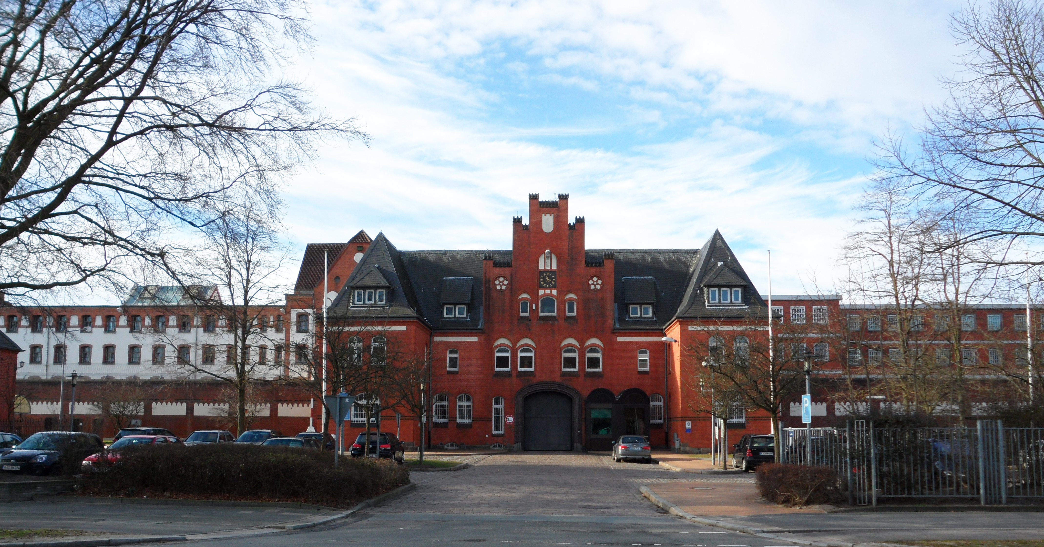 Main entrance of the Neumünster prison